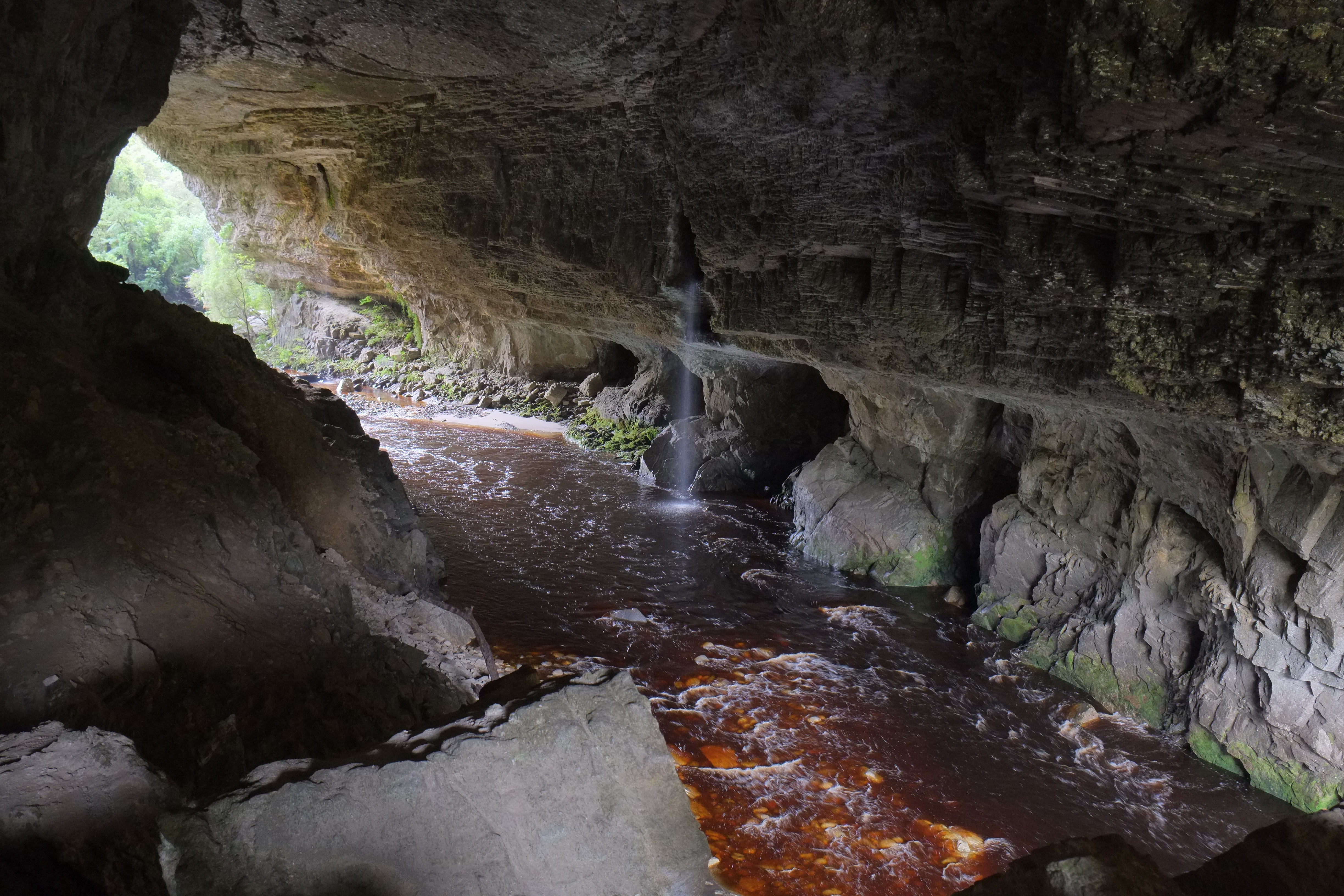 View north (upstream) inside Oparara Arch, the largest natural rock arch in the southern hemisphere at 200m long, 49m wide, and 37m high. The water of the Oparara River is colored a reddish brown by natural tannins. A small waterfall can be seen in the middle inside the arch.